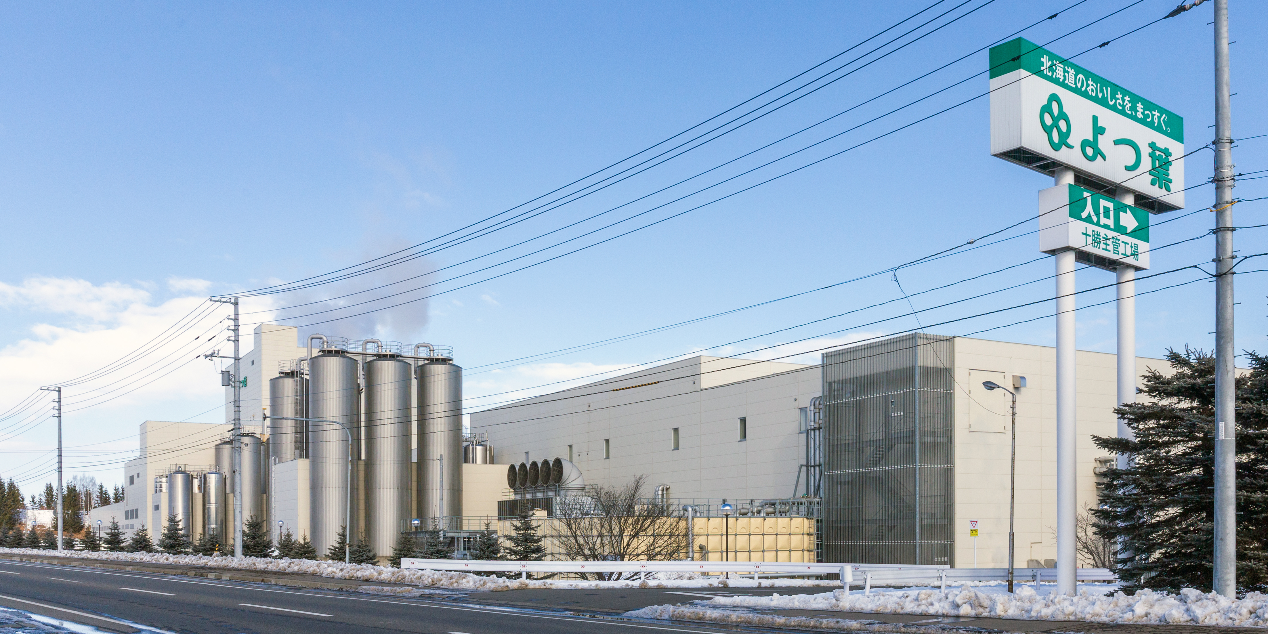 Yotsuba Milk Products Tokachi Main Factory in Otofuke Town, Hokkaido, Japan